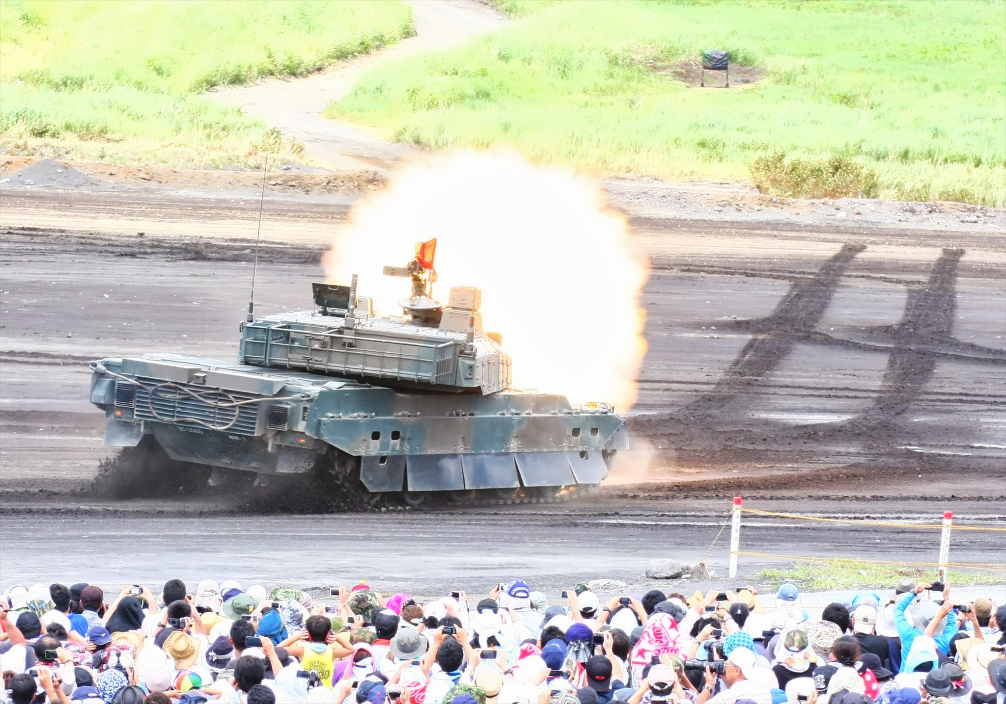 Title 戦車射撃3.jpg Album 富士総合火力演習・そうかえん 前段演習・戦車火力（１０式戦車・スラローム射撃）